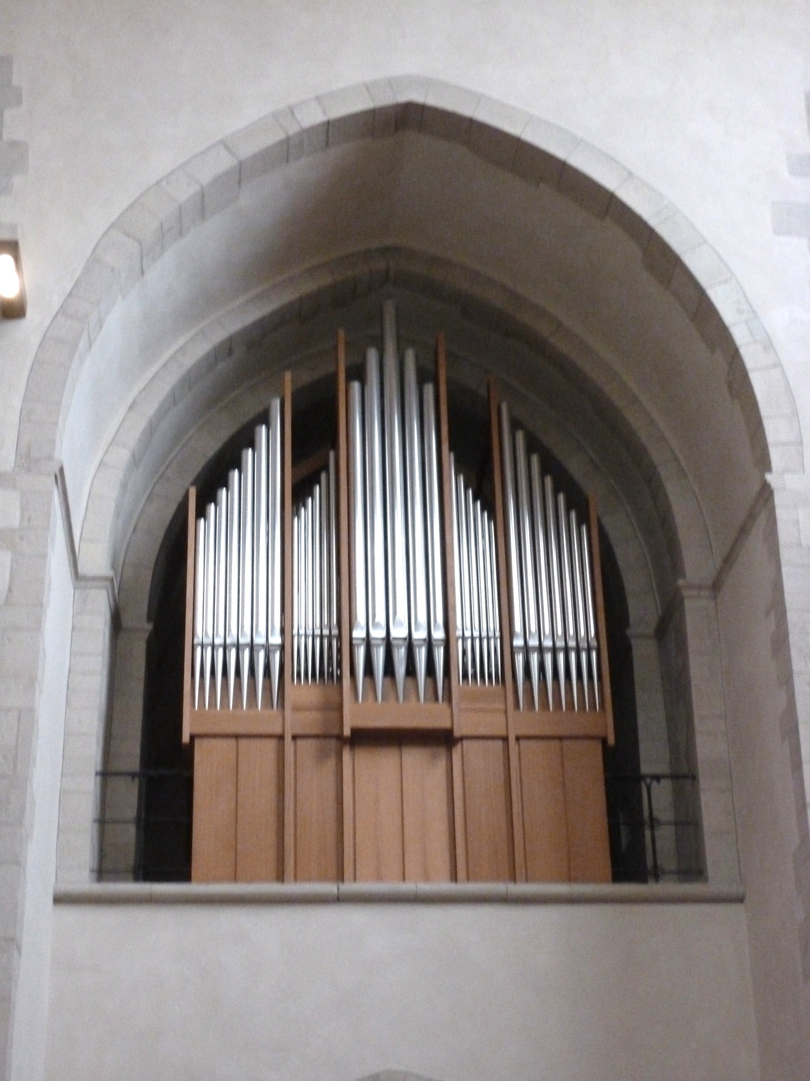 Blick auf das Fernwerk